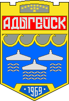 Coat of Arms of Adygeysk (Adygeya)